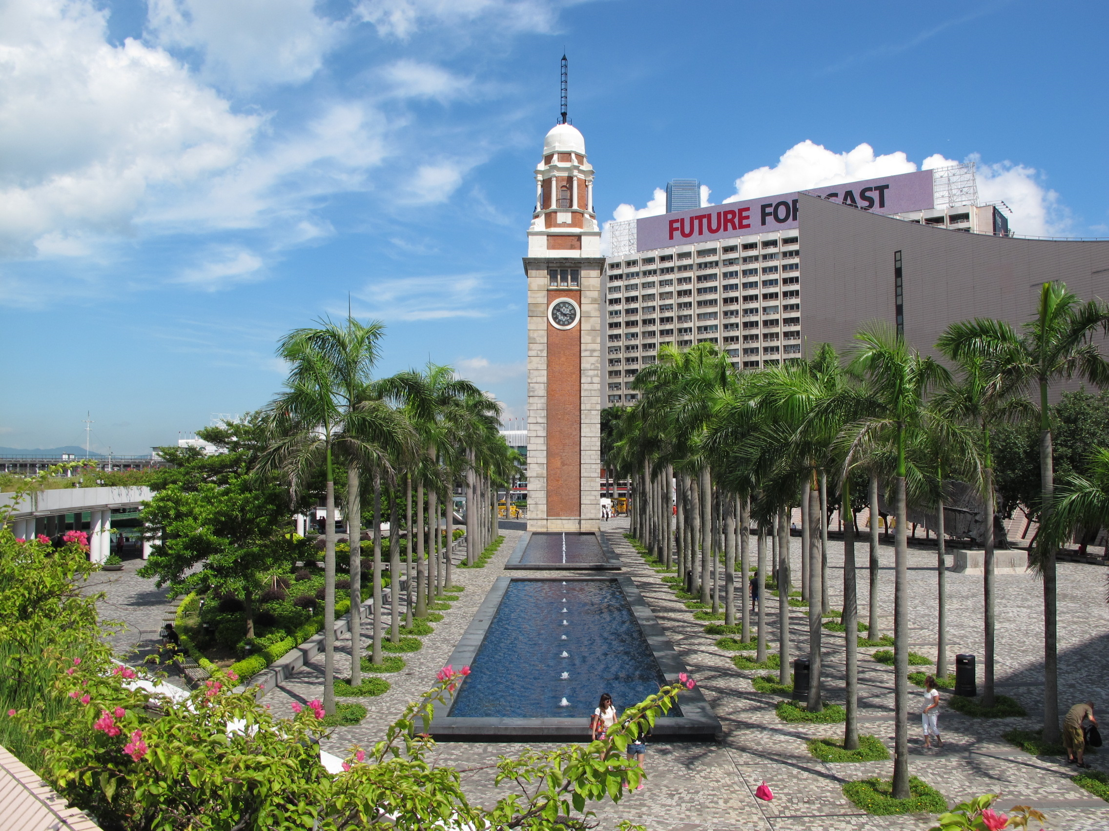 Hong Kong Cultural Centre Plaza